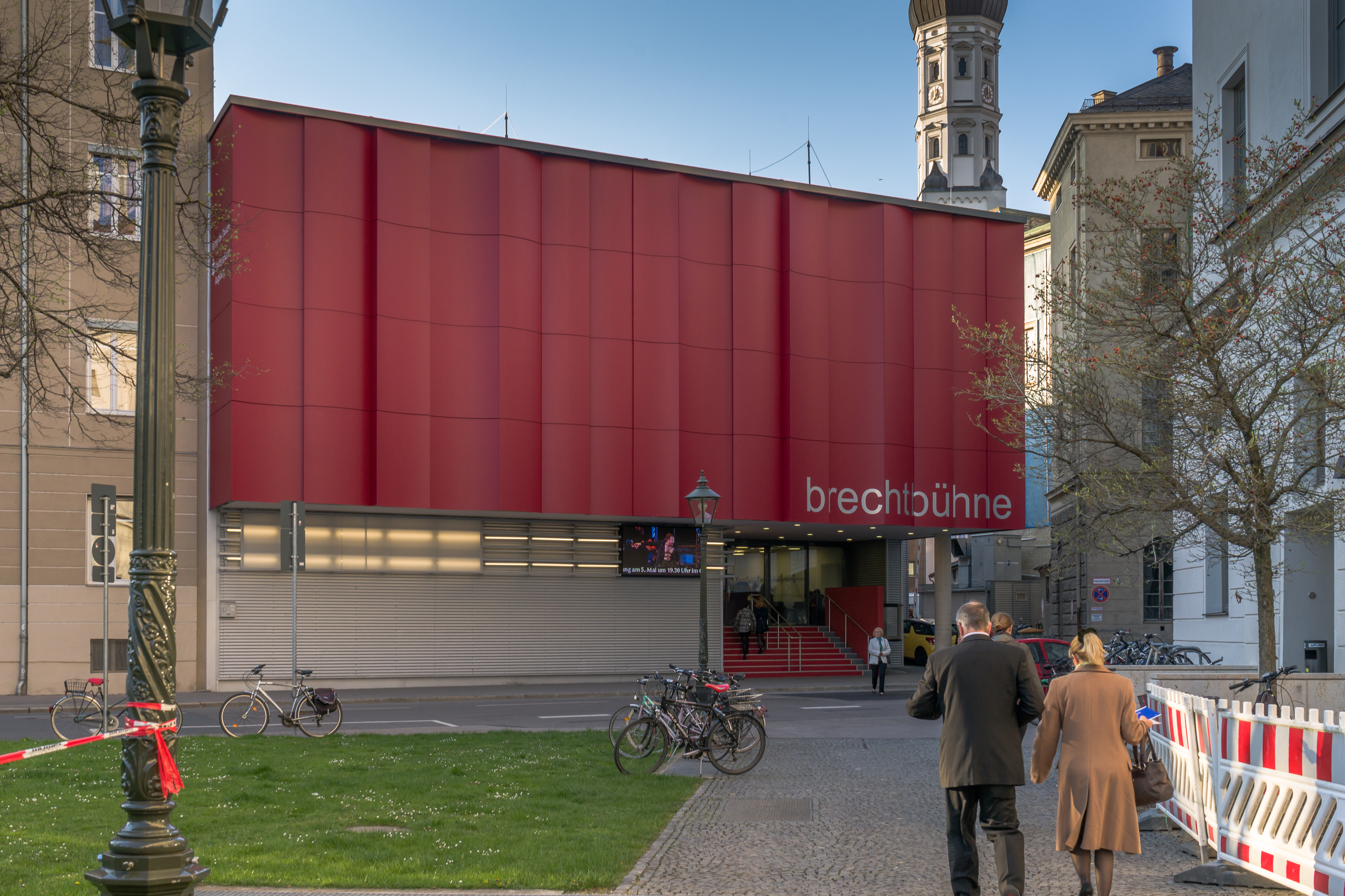 Brechtbühne, a theater in Augsburg.